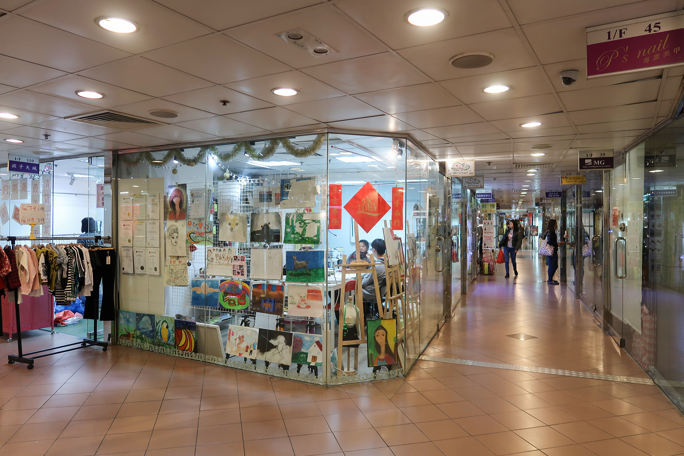 City Centre